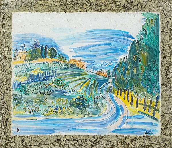 Artist Spéranza Calo-séailles died 1949. guess 1922